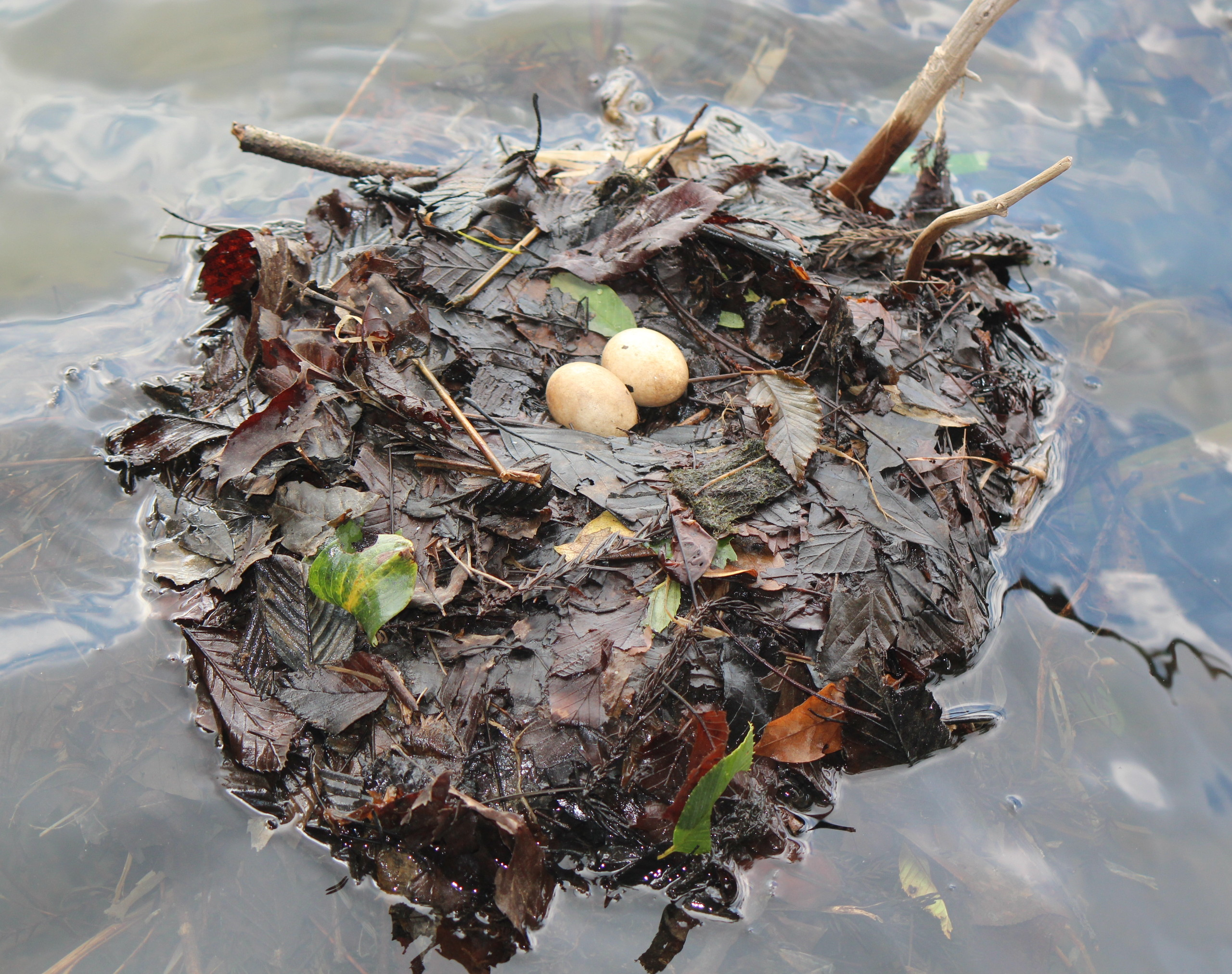 Tachybaptus ruficollis poggei (Little grebe), nest and eggs on the pond in Japan.